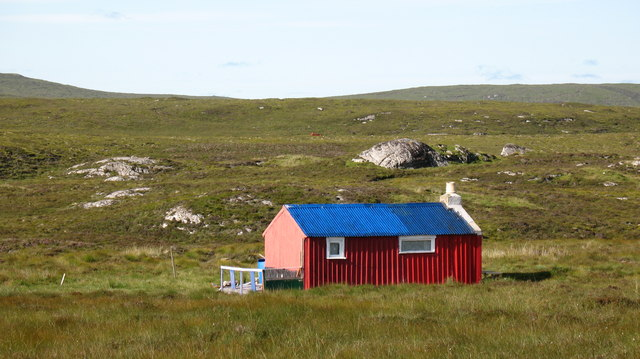 Colourful Sheiling One of the many sheilings on the Lewis moorland.